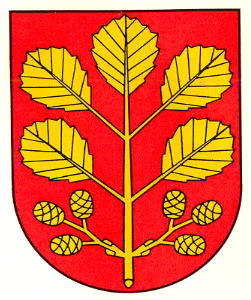 Blazon of Erlen, Canton of Thurgau, SwitzerlandEsperanto: Blazono de Erlen, Kantono Turgovio, Svislando